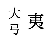 The Chinese character "夷" consists of "大" (meaning big) and "弓" (meaning bow)